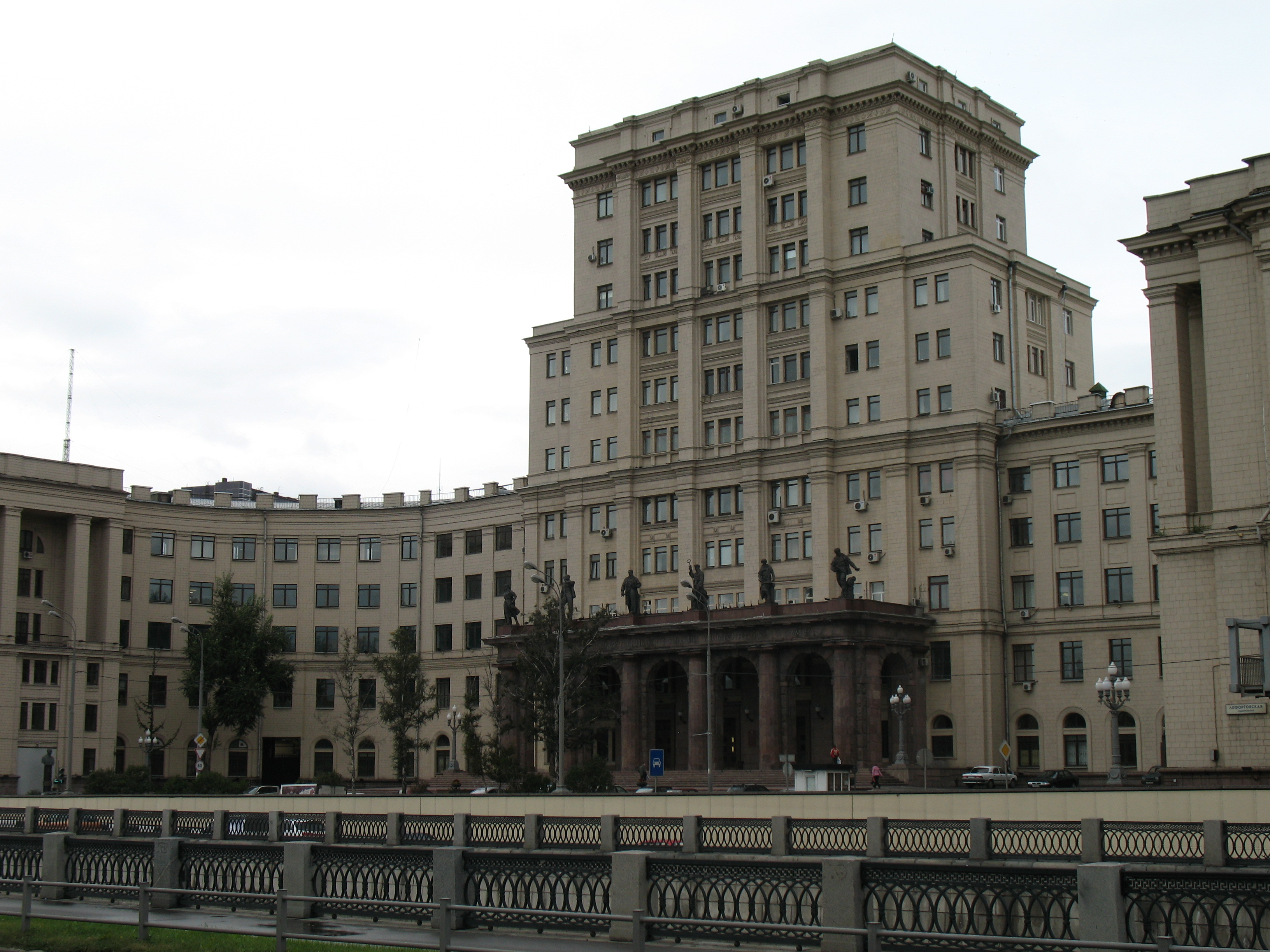 Main building of Bauman Moscow State Technical University. Moscow, Russia.